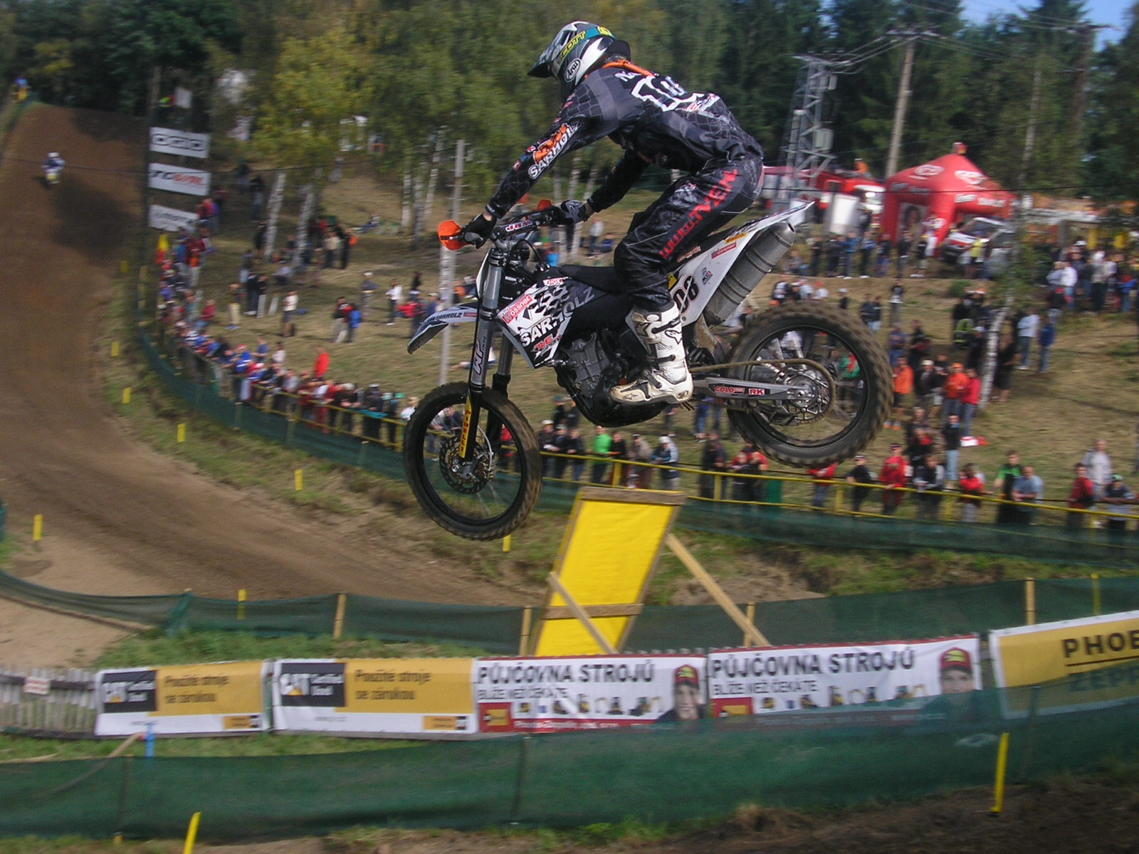 My picture.